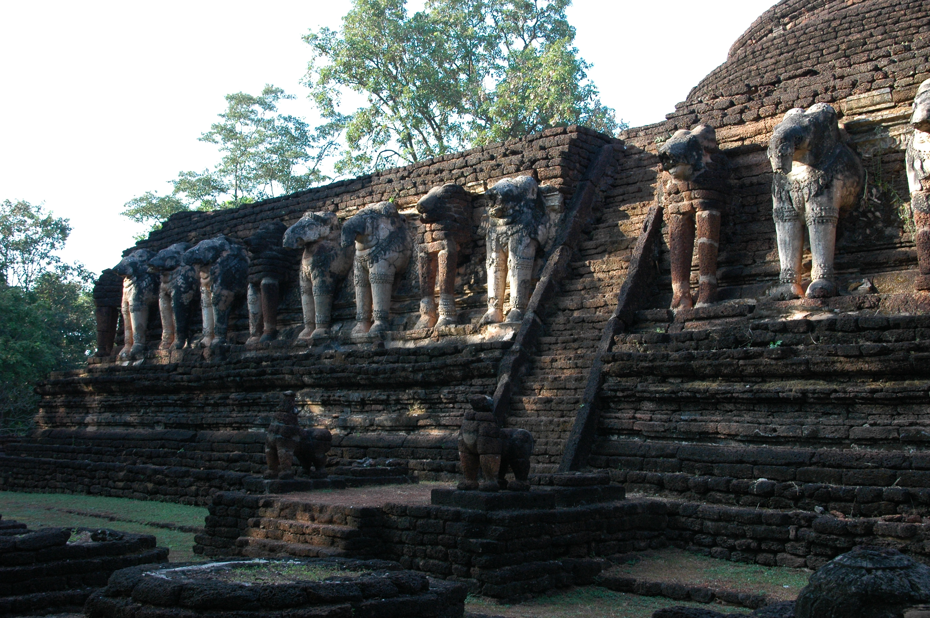 Thailand, Kamphaeng Phet, Wat Chang Rob